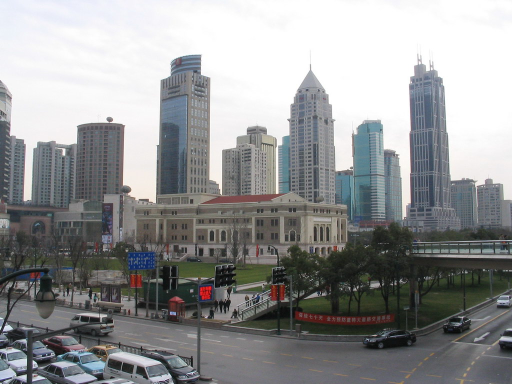 上海音乐厅 Shanghai Concert Hall